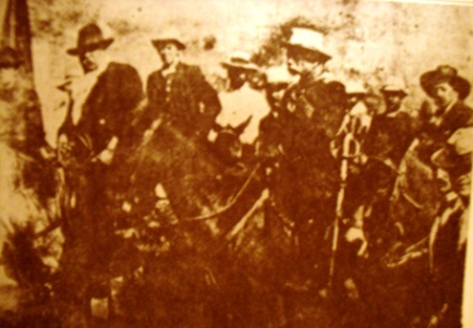 General Alfaro and Commander Pedro Montero in the middle of the battle of Gatazo